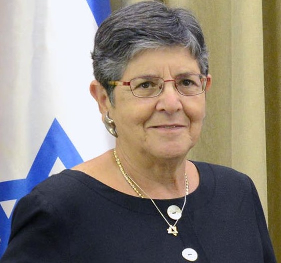 President of the State of Israel, Reuven Rivlin, in a meeting with the Deputy of the Supreme Court of Israel President, Elyakim Rubinstein. Wednesday, July 19, 2017. Photo Credit: Mark Neyman / GPO.